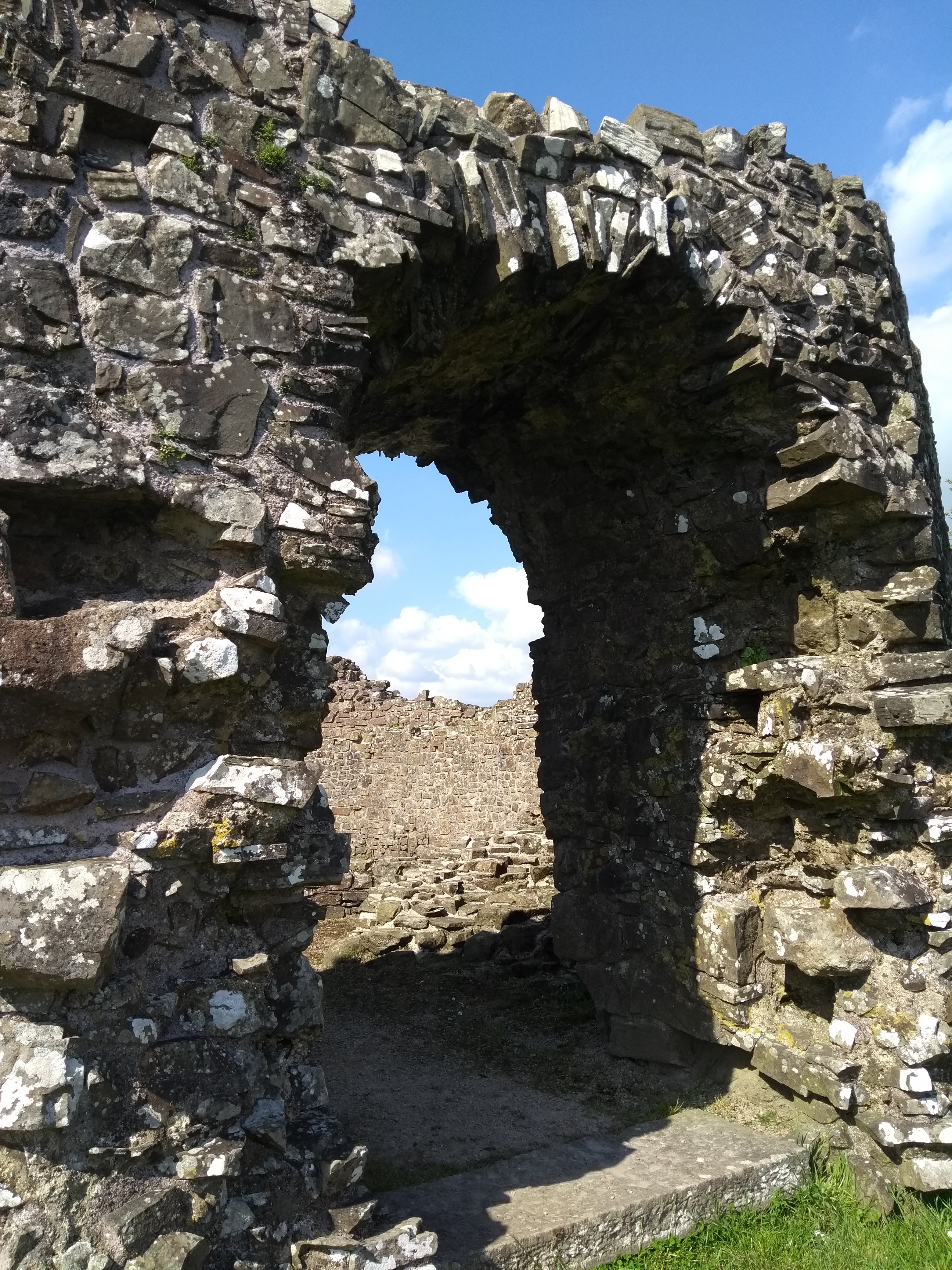 12th century Flemish masonry in the archway at Wiston Castle